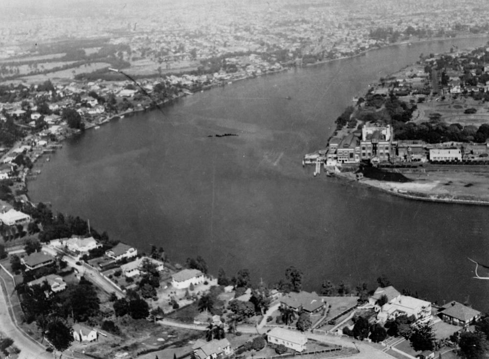 Aerial view of the Brisbane River and the riverside suburb of Hawthorne, 1947